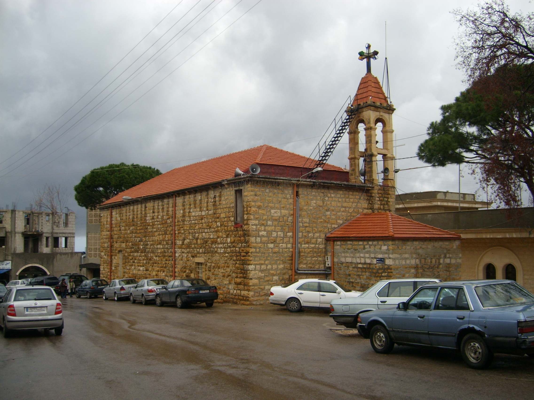 Picture I took myself of the Church St Mary in Bdadoun